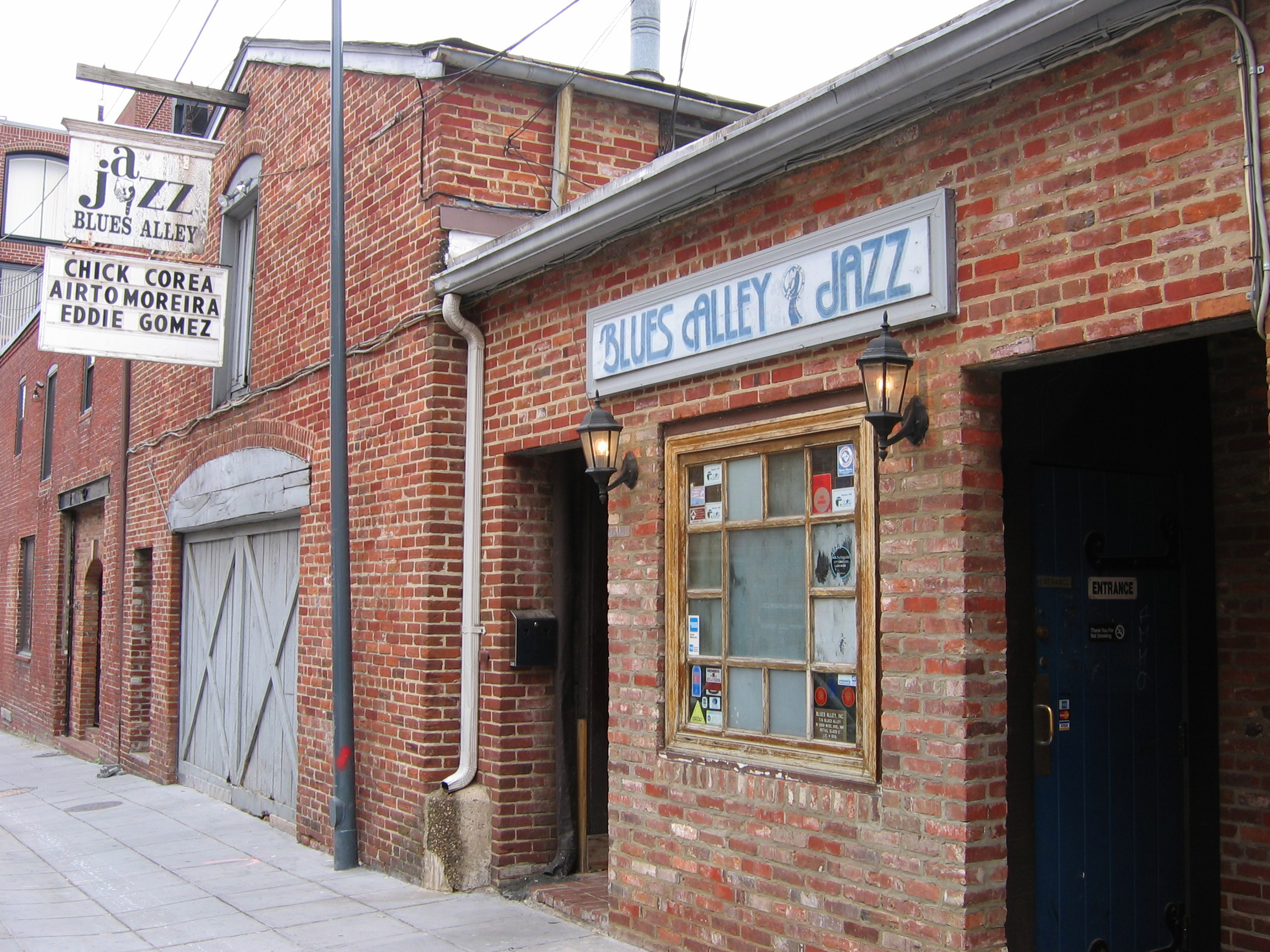 Blues Alley jazz nightclub, located in Georgetown (Washington, D.C.), has hosted many well-known jazz musicians such as Wynton Marsalis.